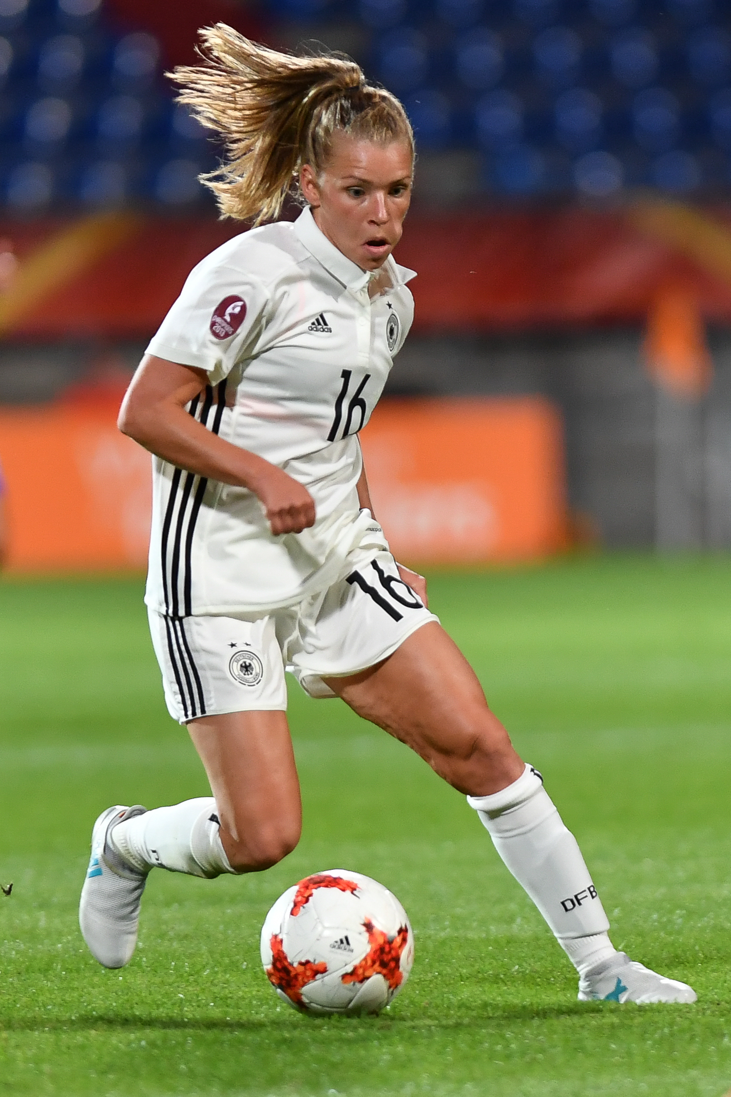 21/7/2017, Tilburg, Netherlands, sports, soccer, UEFA Women's Euro 2017 - Germany vs Italy.